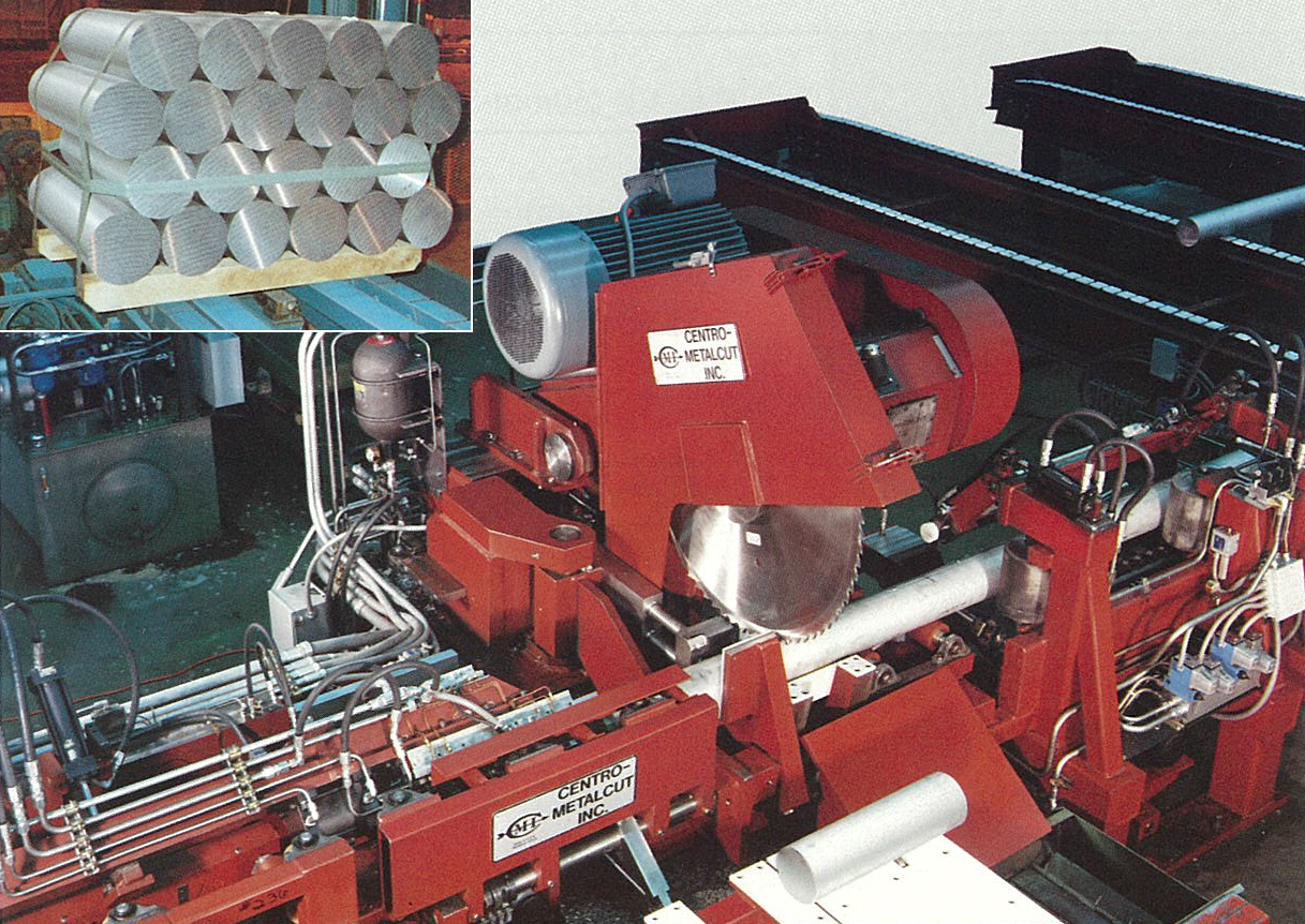 Centro Metal Aluminum Saw with Automatic Stacking and Banding Feature